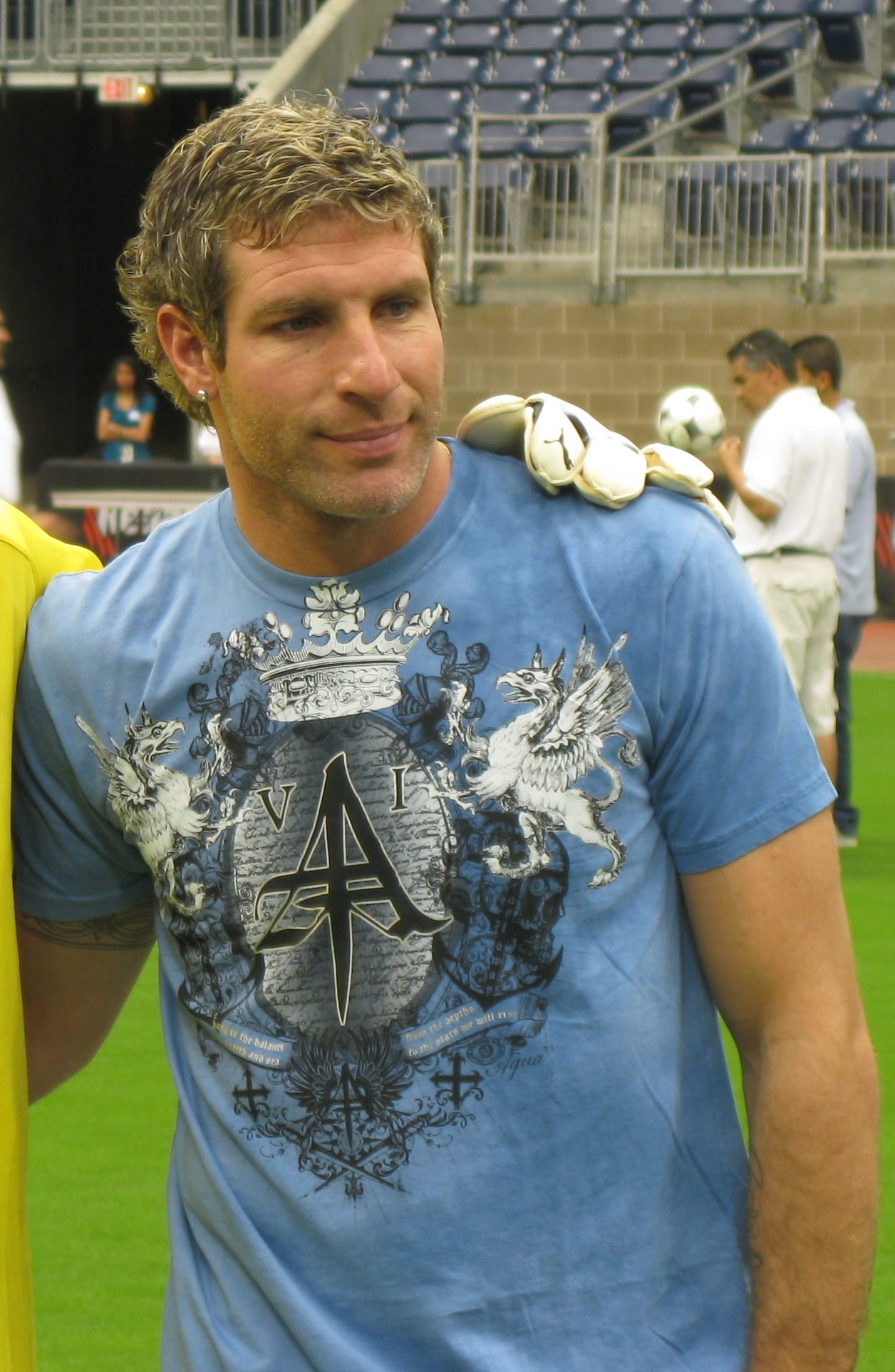 Martin Palermo posing in a photo shoot before the Free Kick Masters 2008 in Houston, TX